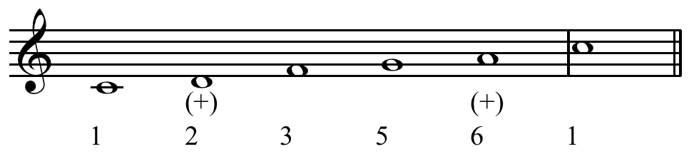 Slendro tuning system. "The representations of slendro and pelog tuning systems in Western notation shown above should not be regarded in any sense as absolute. Not only is it difficult to convey non-Western scales with Western notation, but also because, in general, no two gamelan sets will have exactly the same tuning, either in pitch or in interval structure. There are no Javanese standard forms of these two tuning systems." Lindsay, Jennifer (1992). Javanese Gamelan, p.39-41. ISBN 0-19-588582-1.